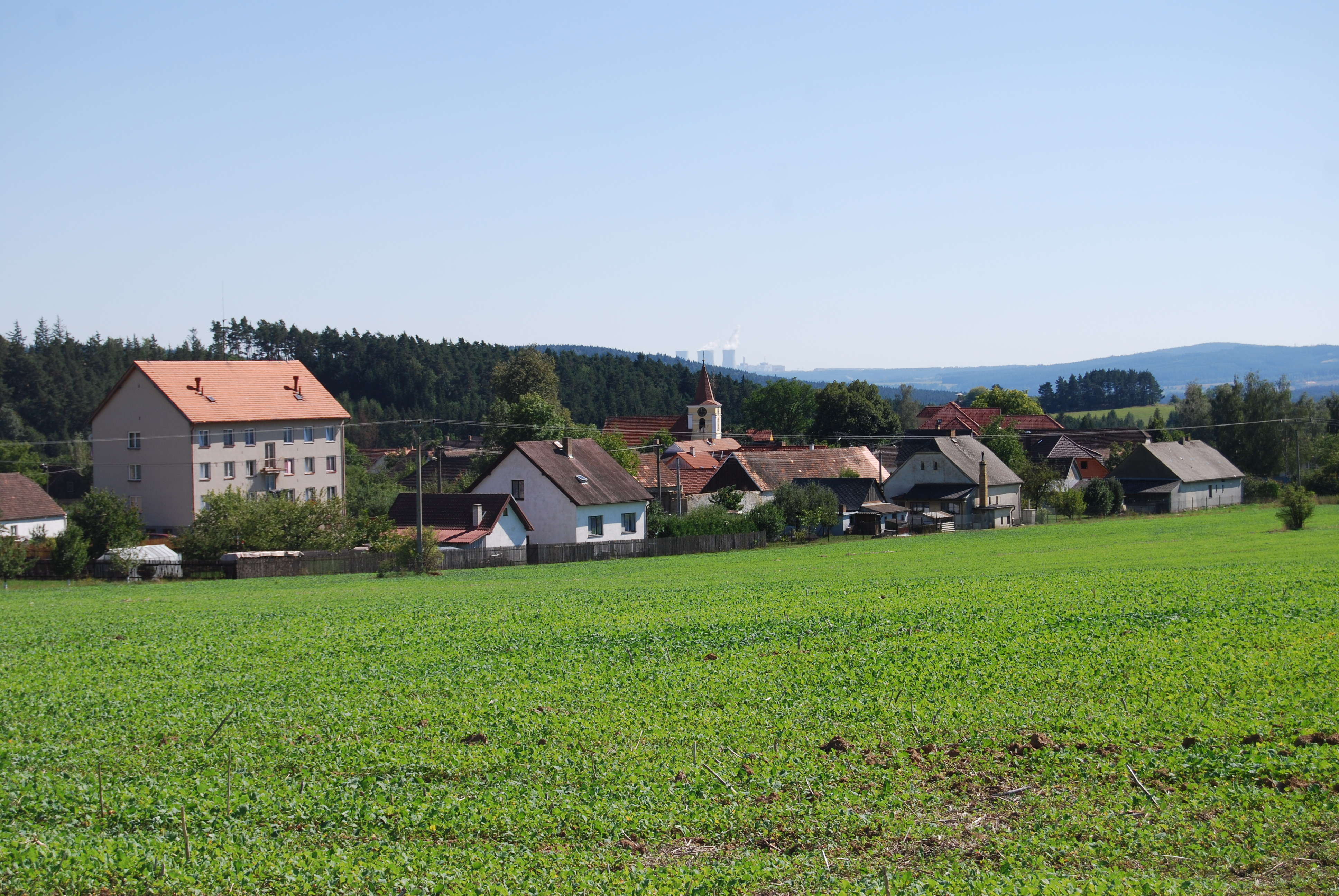 Slabčice village in Písek District, Czech Republic.